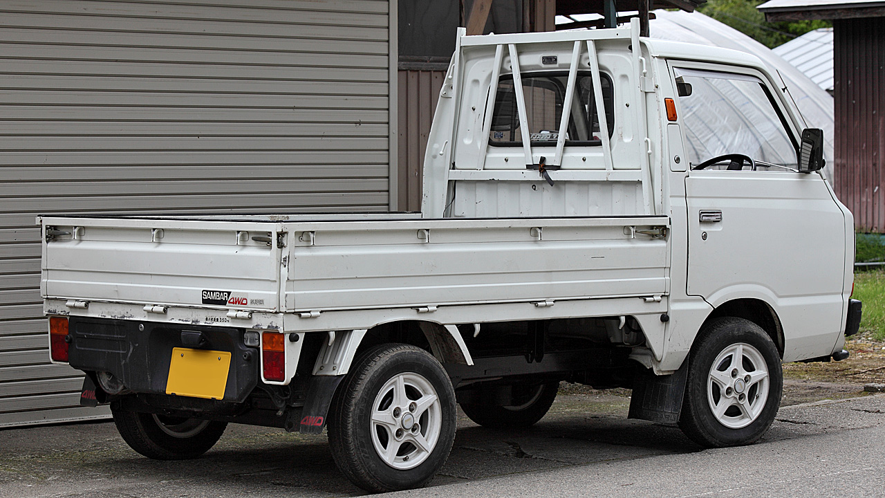 Subaru Sambar 4WD